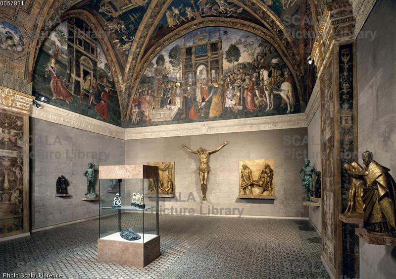 View of Room V Vatican Borgia Apartments